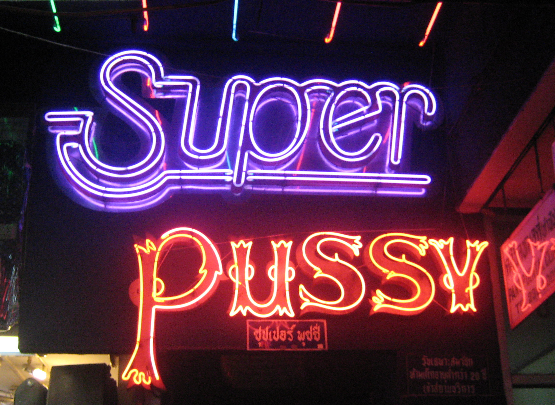 Super Pussy. home to the infamous Ping Pong show, Bangkok.